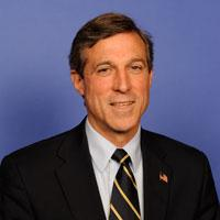 John C. Carney, member of the United States House of Representatives.